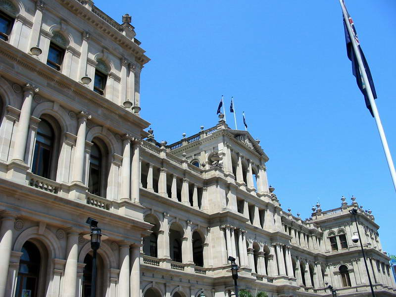 Exterior of the Treasury Casino.